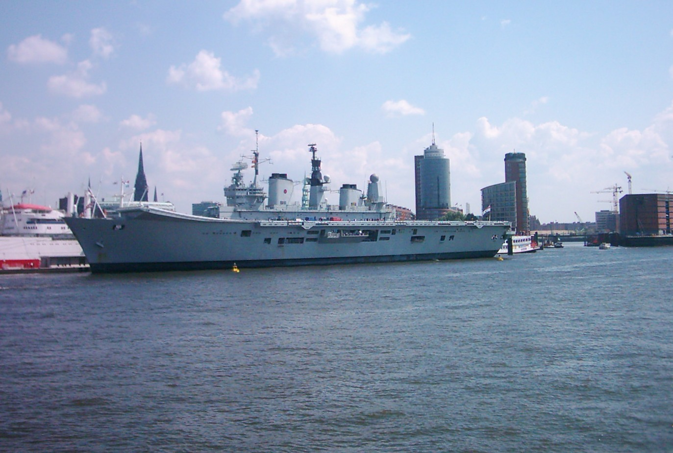 The light aircraft carrier HMS Ark Royal at the port of Hamburg, Germany, 30.05.-03.06.2007.